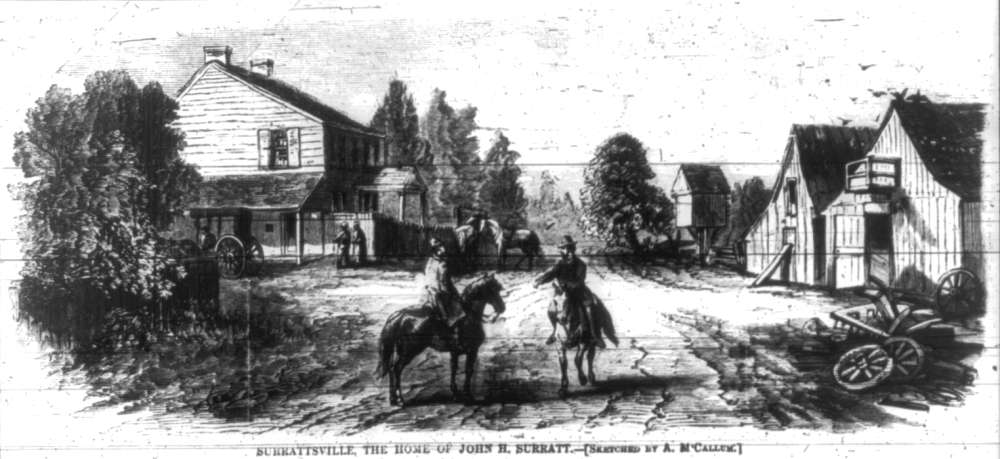 A wood engraving of Surrattsville, Maryland (now known as Clinton, Maryland) in 1867. The work appeared in Harper's Weekly in 1867. The wood engraving is by artist A. M. McCallem.